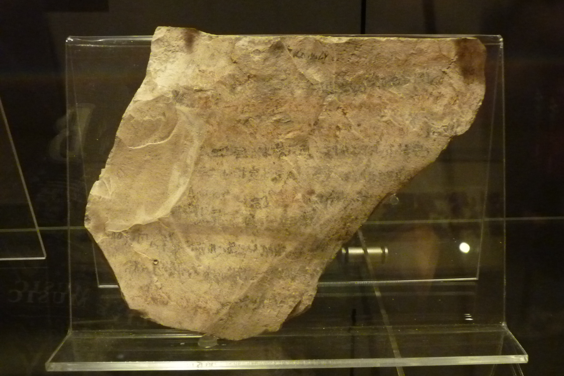 Ostrakon with part of the ancient Egyptian literary composition, Satire of the trades. Limestone from Deir el-Medina, 19th Dynasty, New Kingdom. Found by Schiaparelli in 1905. Turin, Museo Egizio, S.6378.